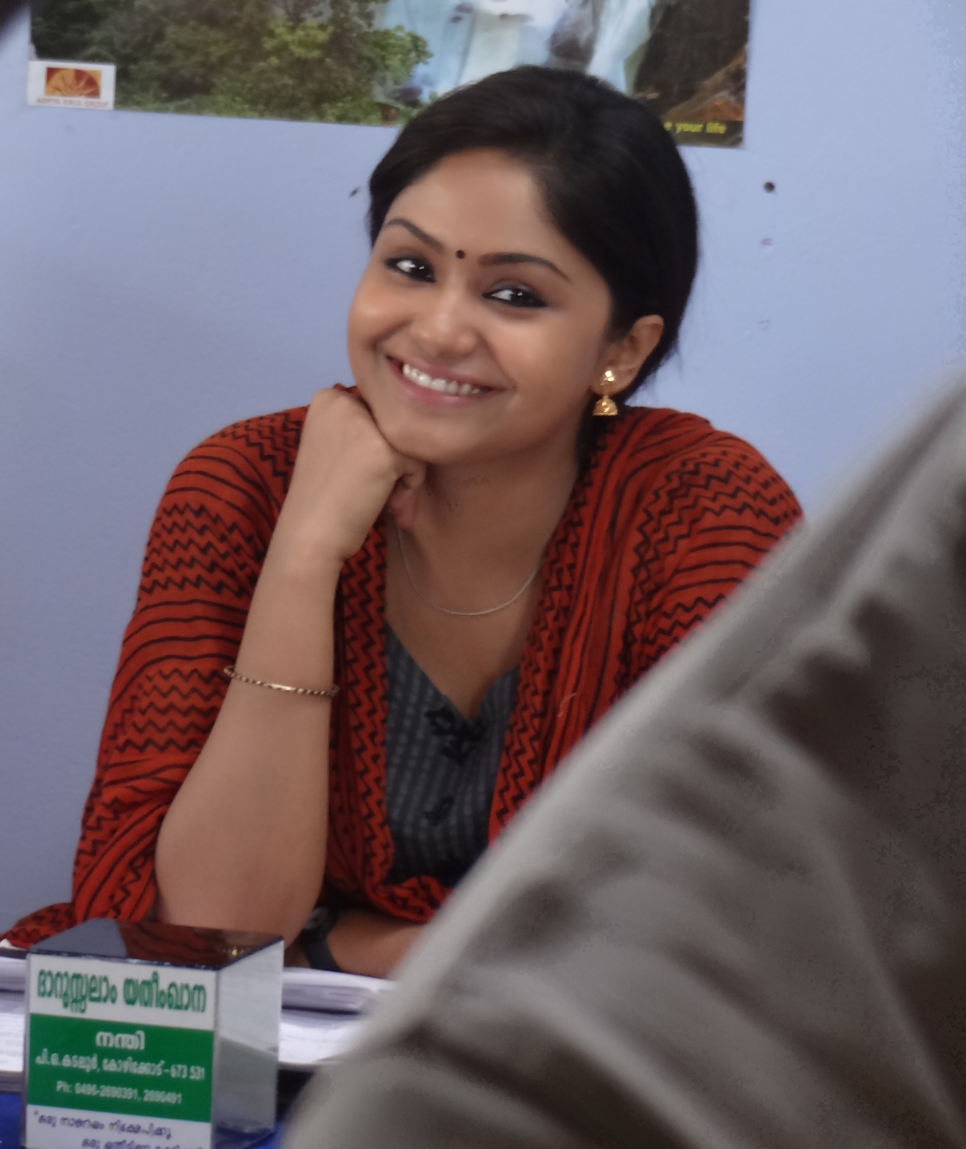 Indian Actress Shritha Sivdas for the shooting of the 2013 Malayalam film 'Koothara'. The shooting happened at Calicut University Institute of Engineering and Technology (CUIET). The uploaded image is a cropped and edited version as the original contained a lot of unwanted areas